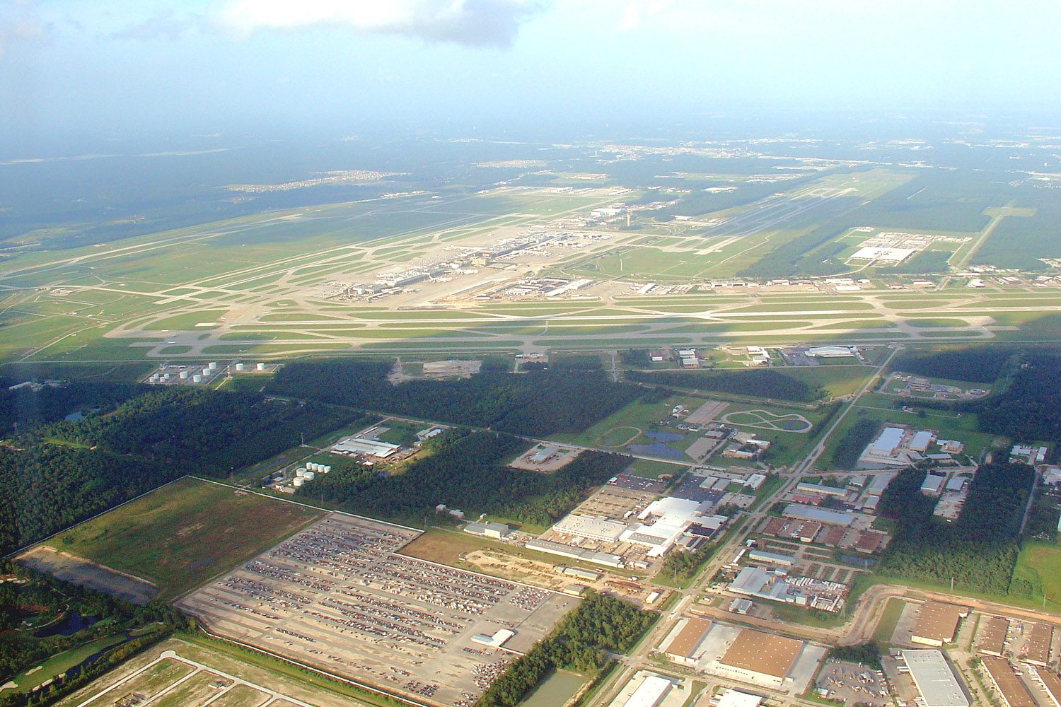 A view of Bush Intercontinental Airport (IAH) in Houston, shortly after takeoff on a Continental Airlines flight to Kansas City - Friday 28 July 2006. This view is looking toward the northeast.